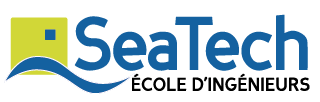 SeaTech